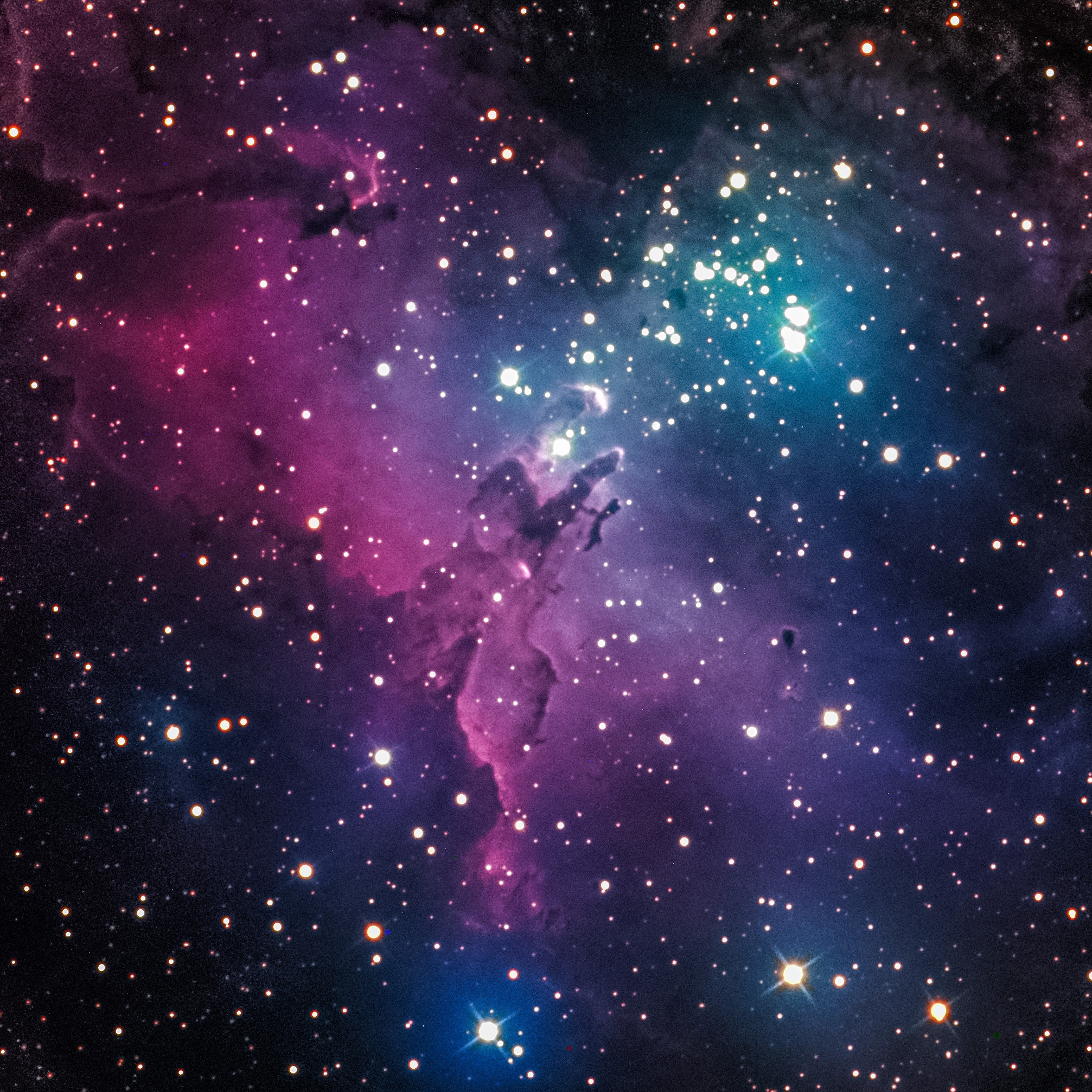 LRGB Composite image of Eagle Nebula (Messier 16). Major star-forming region in the center of the image is called "Pillars of Creation". Another interesting feature, "The Spire" or "Fairy" is located in the upper left corner. This photograph was taken with Planewave CDK 0,7m Telesope System.